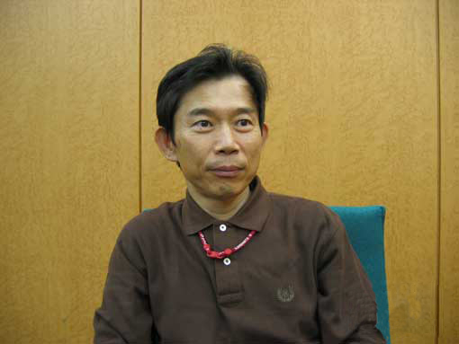 A photo of Hiroyuki Takahashi during an interview in 2005.